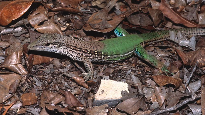 Ameiva ameiva in Lençóis Maranhenses National Park, Maranhão State, Northeastern Brazil. Photo by J. P. Miranda.